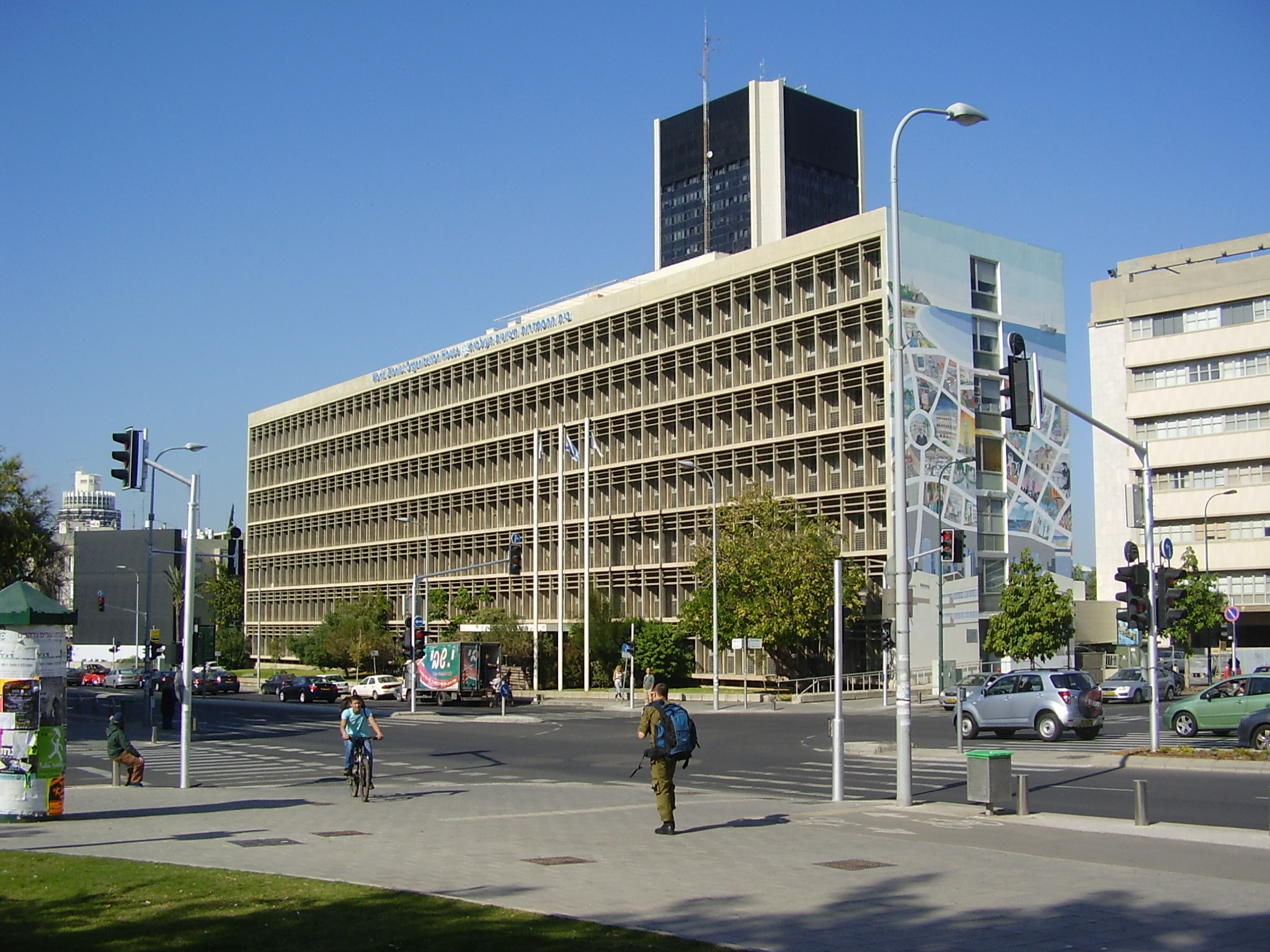 World Zionist Organization Building in Tel Aviv